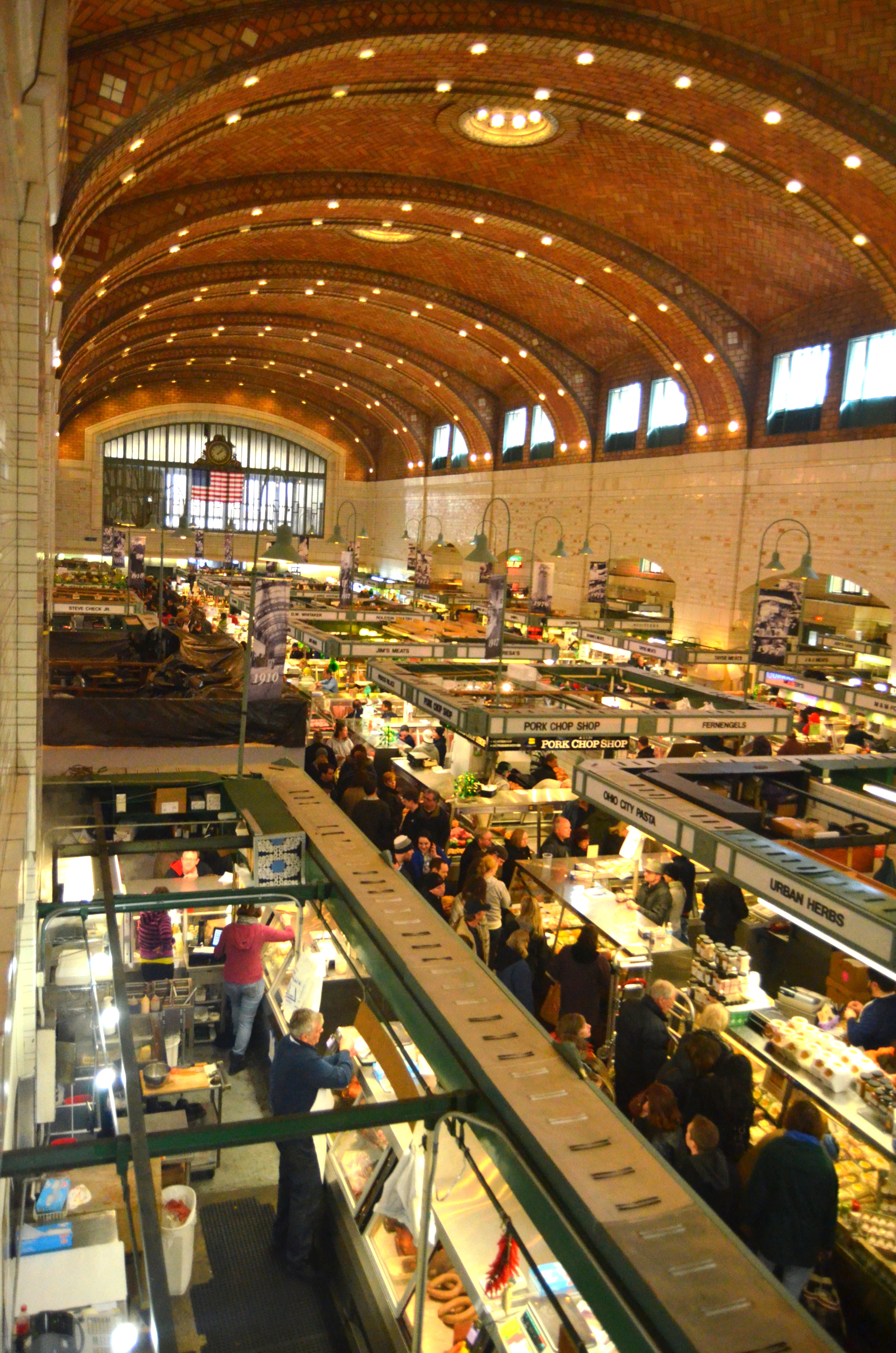 West Side Market 1st Saturday Open after the Fire